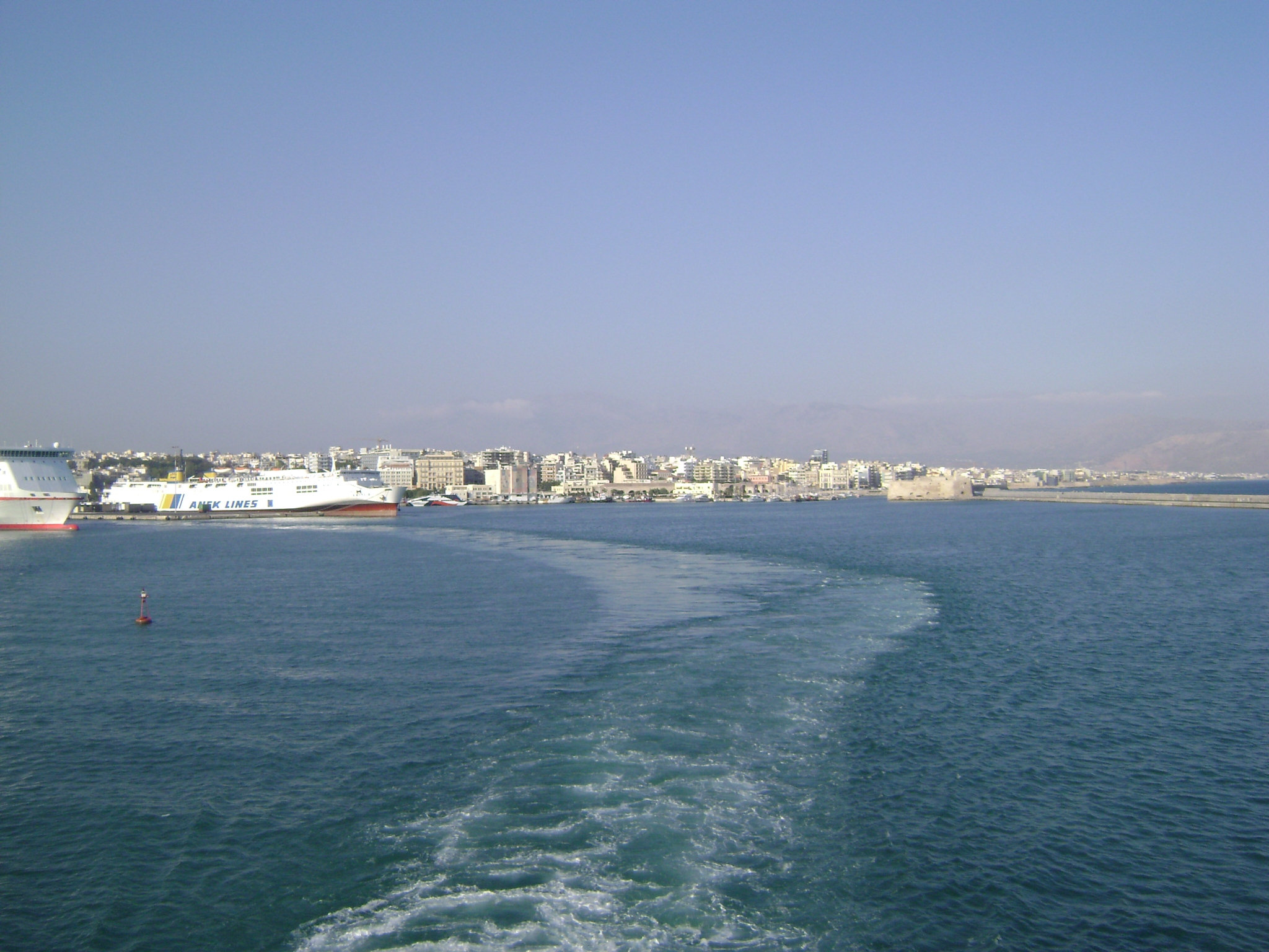 Panorama of Heraklion from the Aegean sea